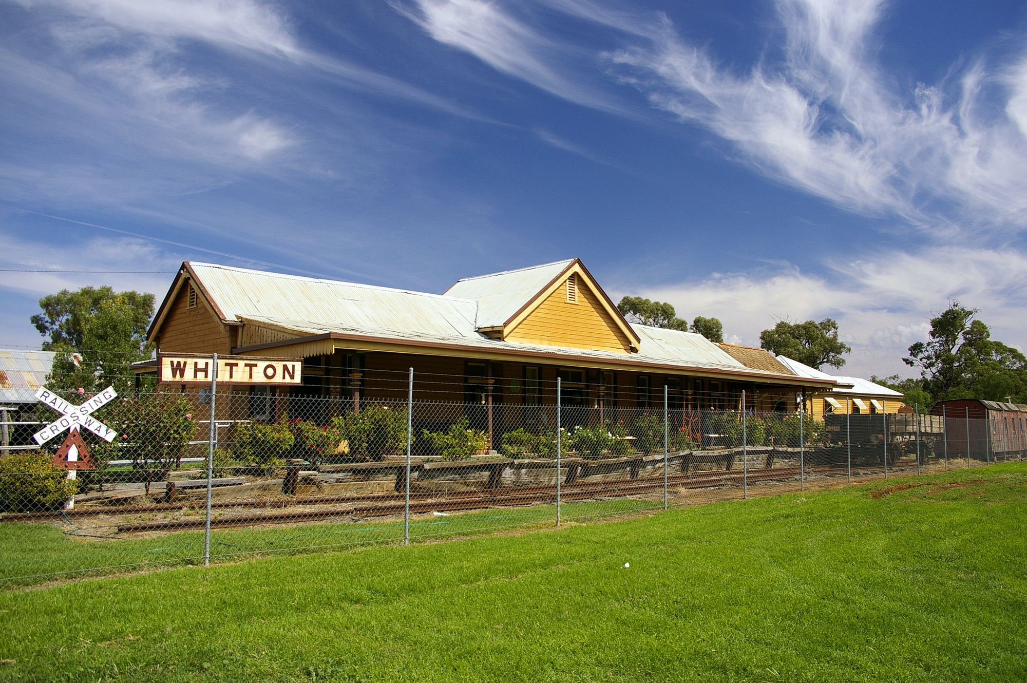 Former railway station building at the Whitton Museum.